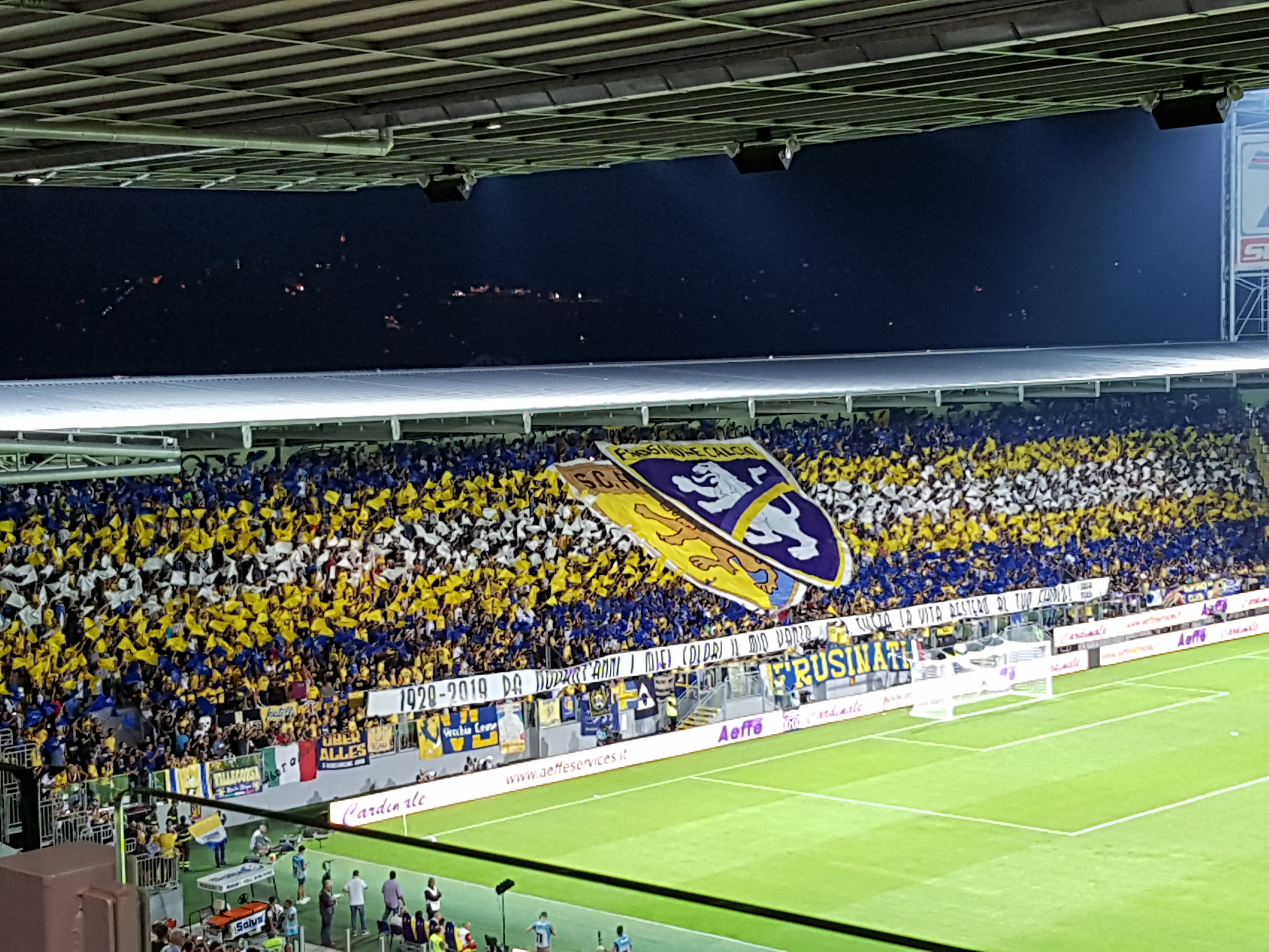 Benito Stirpe Stadium, North Stand, set up of the supporters "1928-2018 For ninety years you've been my colours and my pride. For the rest of my life I'll stay by your side" - "1928-2018 Da novant'anni i miei colori, il mio vanto. Per tutta la vita resterò al tuo fianco" (Frosinone-Juventus 0-2, 23/09/2018)